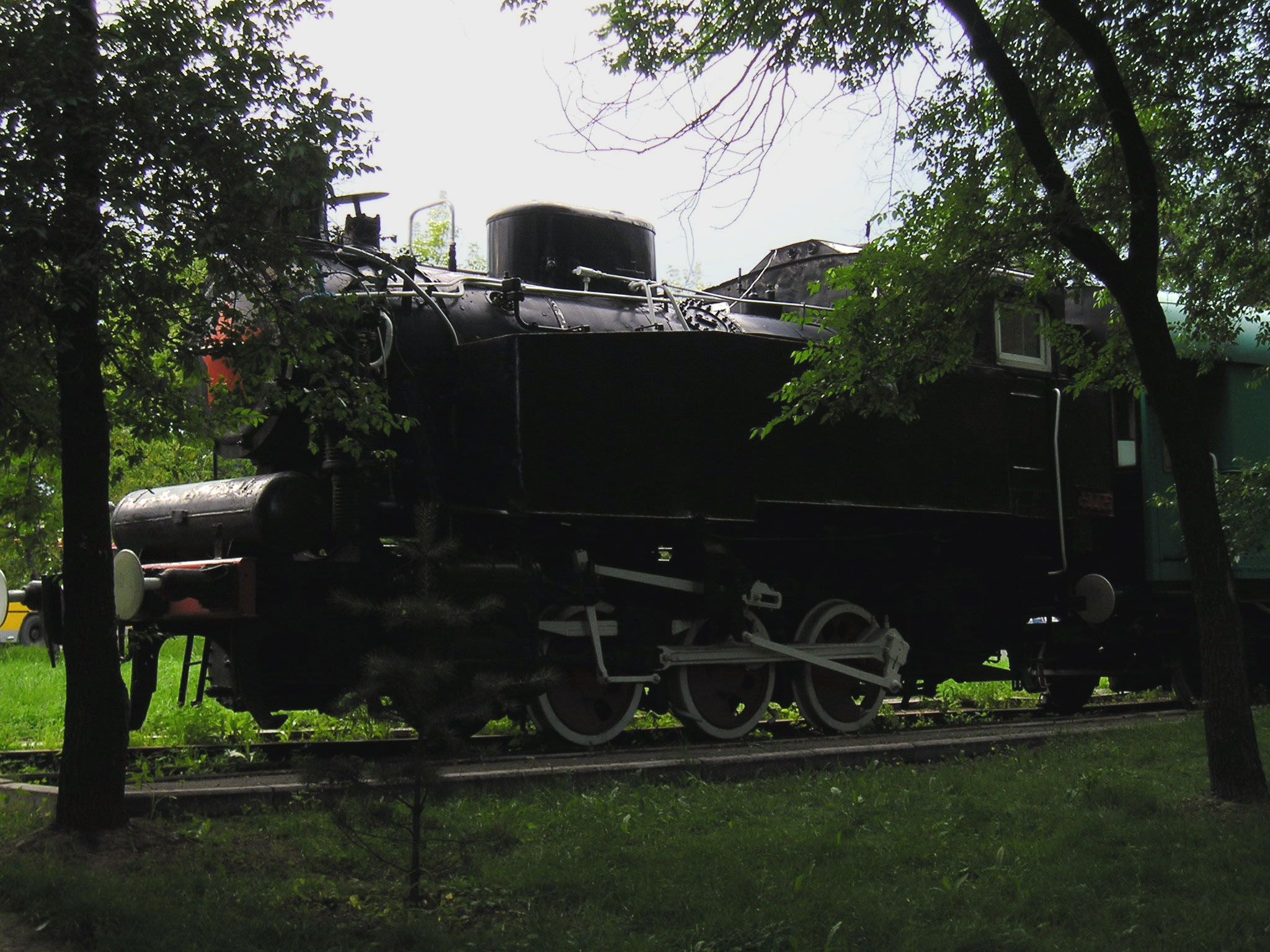 Steam locomotive 9P-158 in Khabarovsk-1 station, modified into pizzeria's kitchen